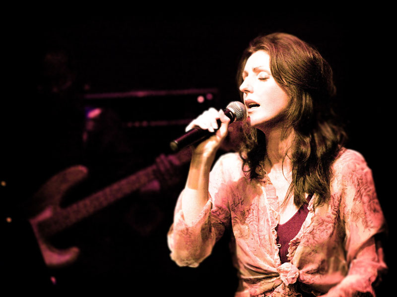 Julienne Taylor Hong Kong concert 2009